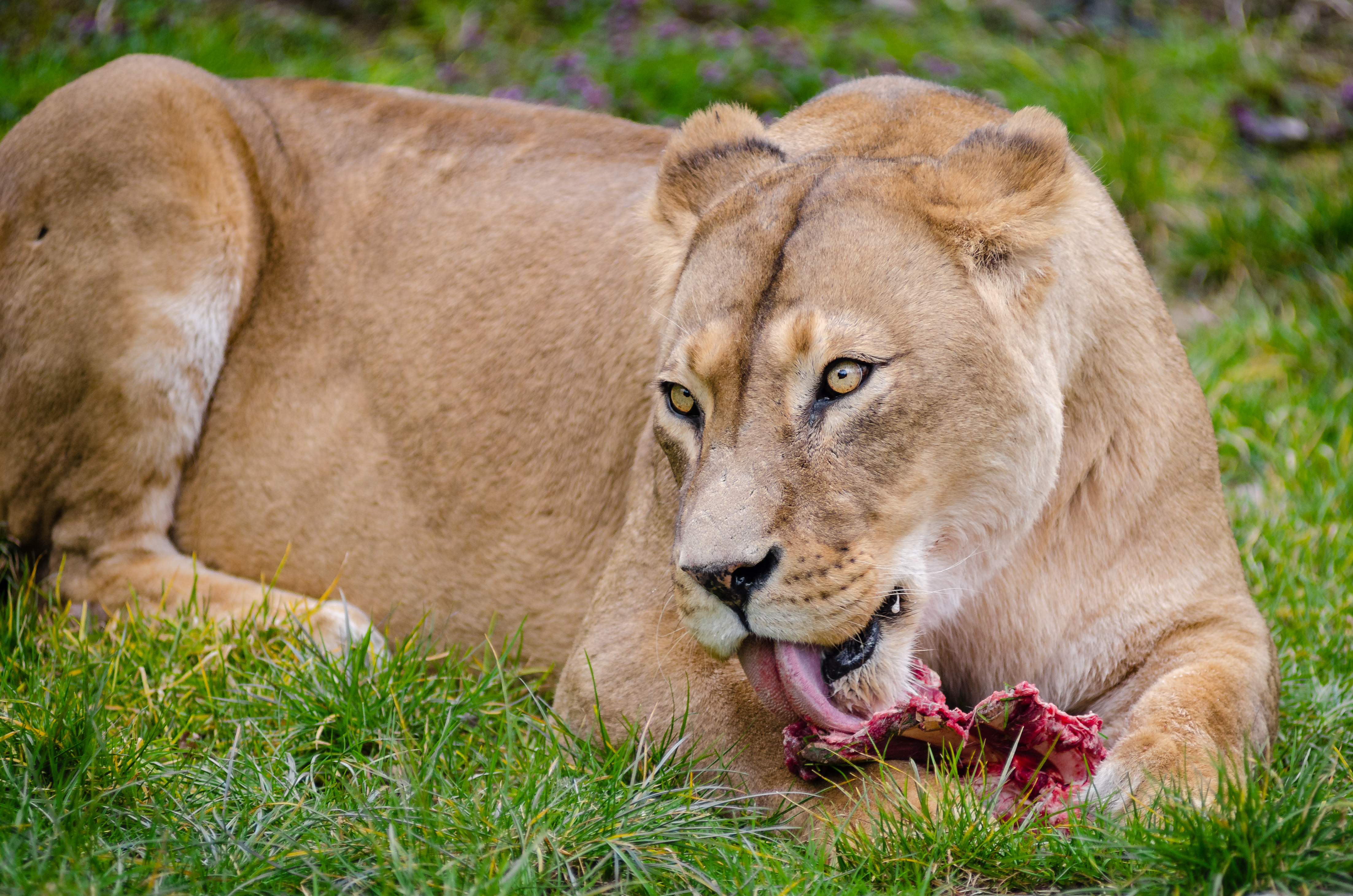 African Lion